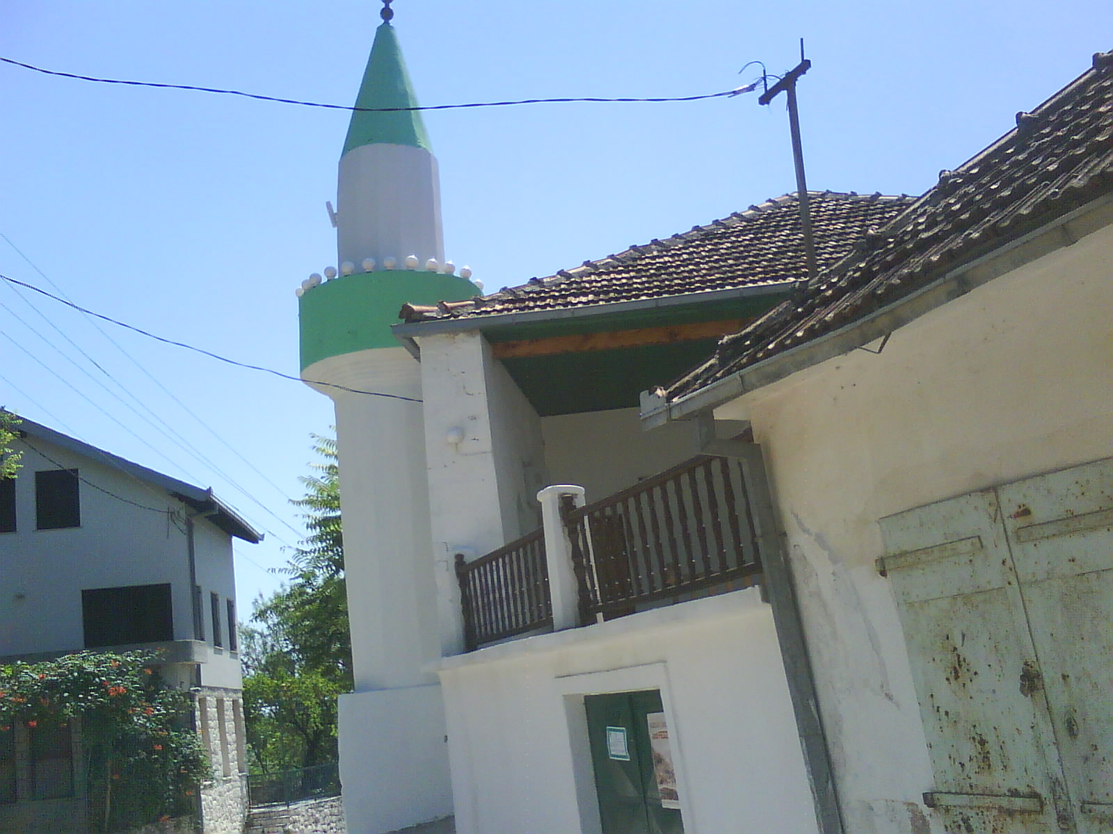 Mosque in Ljubuški